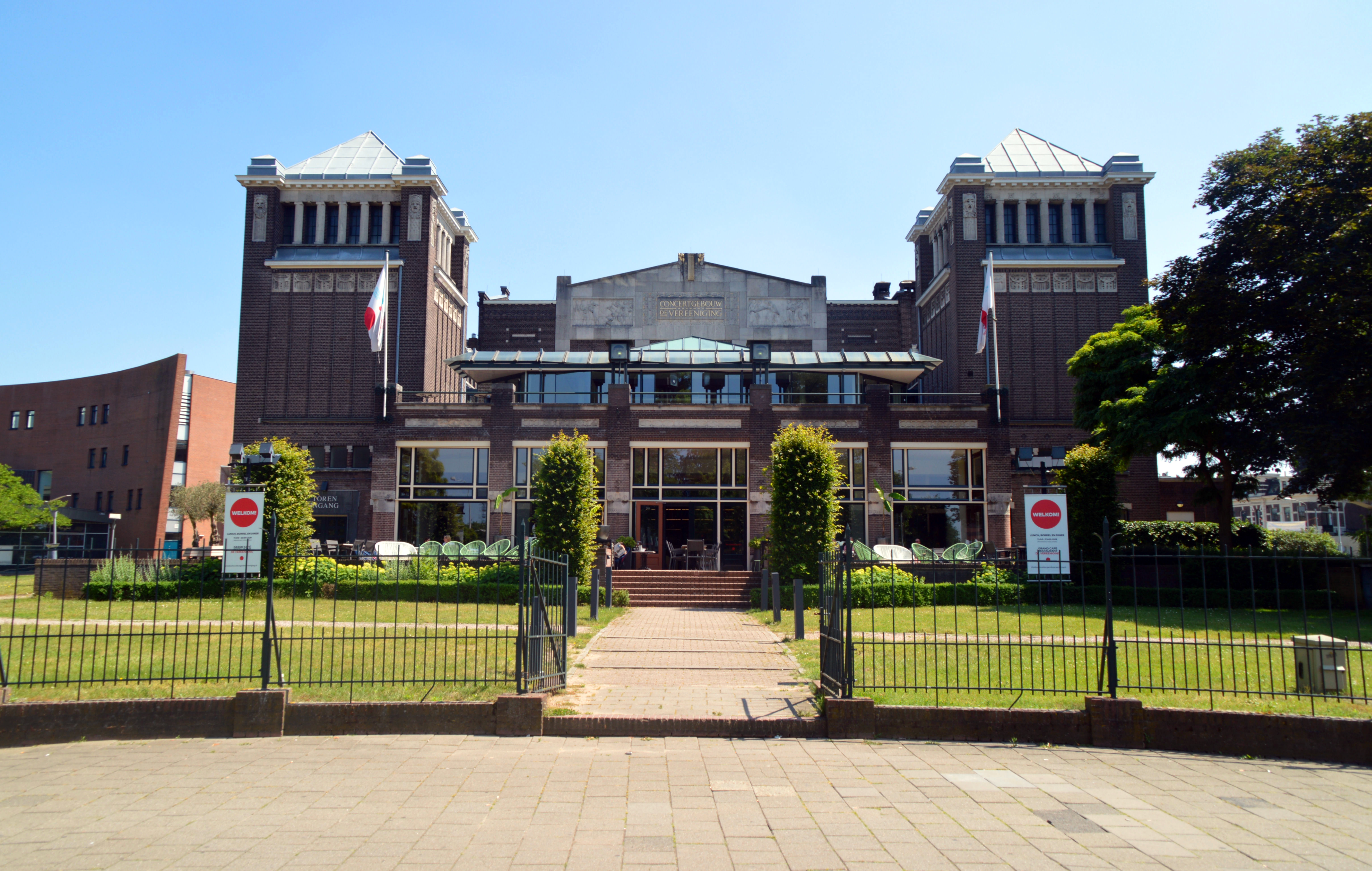 Concertgebouw de Vereeniging Nijmegen front view summer Oscar Leeuw